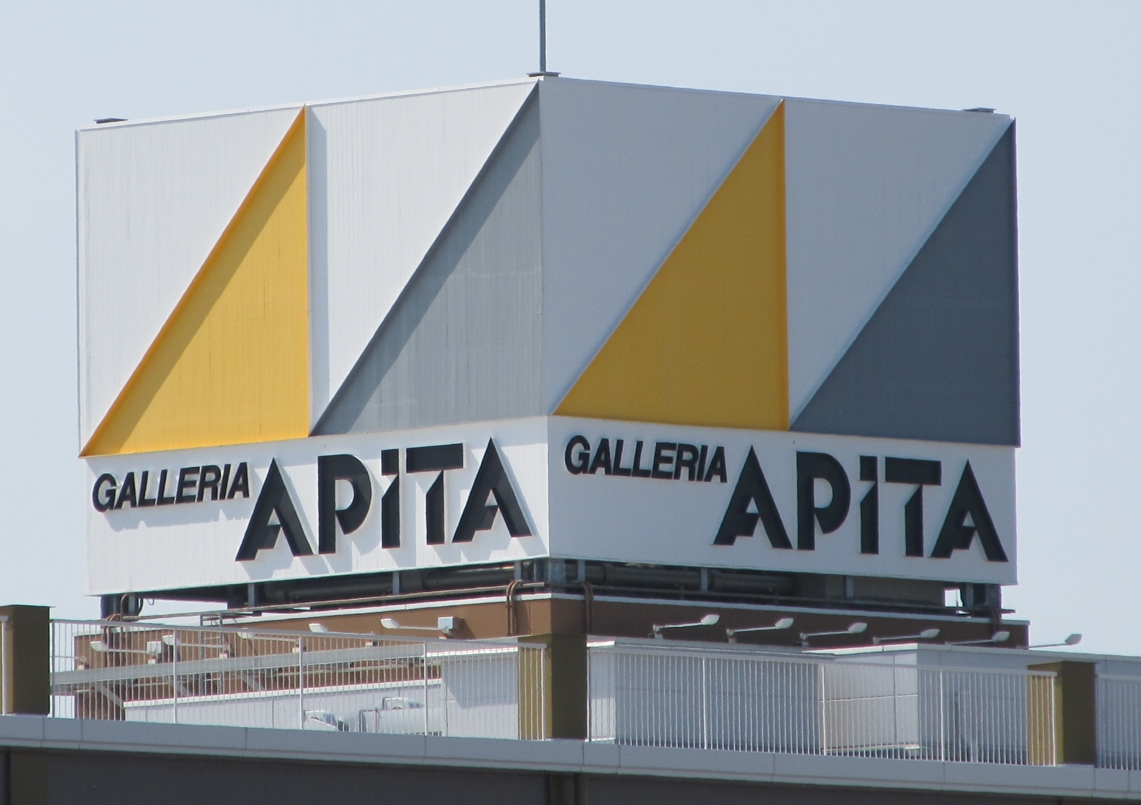 The "Galleria APiTA Chiryu" Logomark.